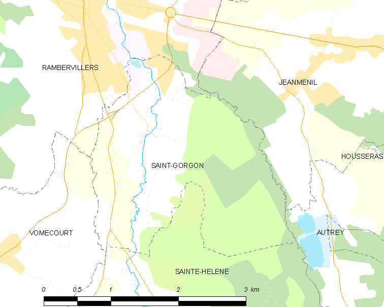 Map of French municipality Saint-Gorgon